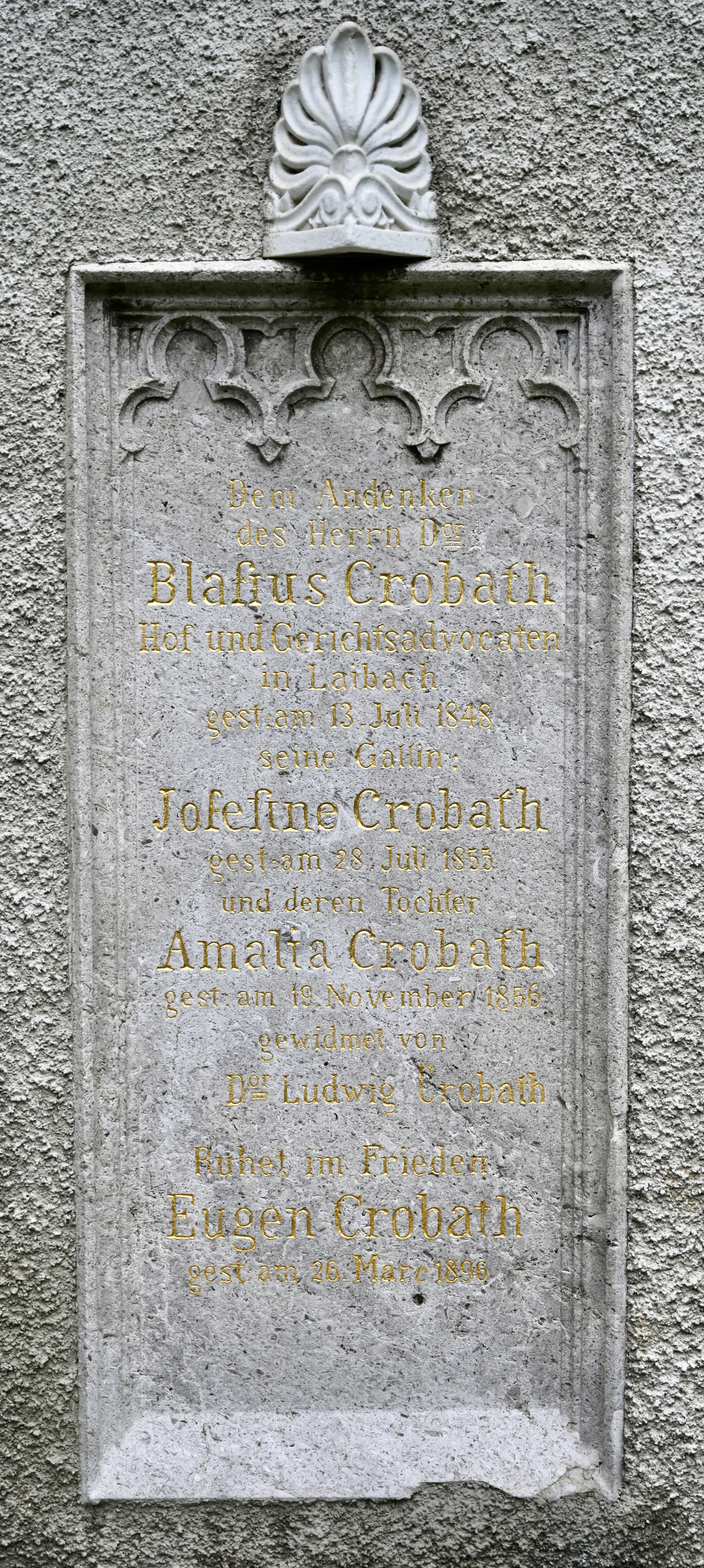 Tombstone of Blaž Crobath, a Slovenian politician and lawyer, at Navje in Ljubljana